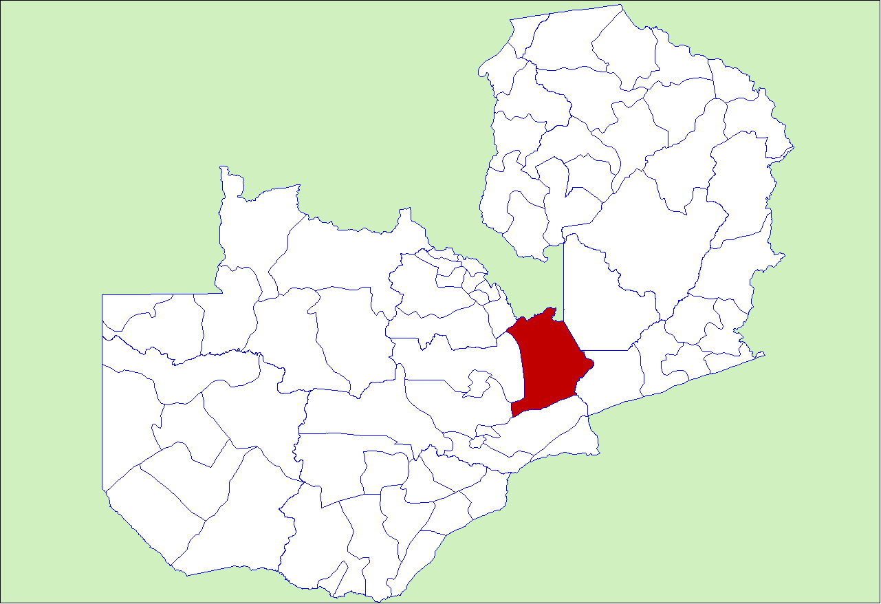 District locator in Zambia